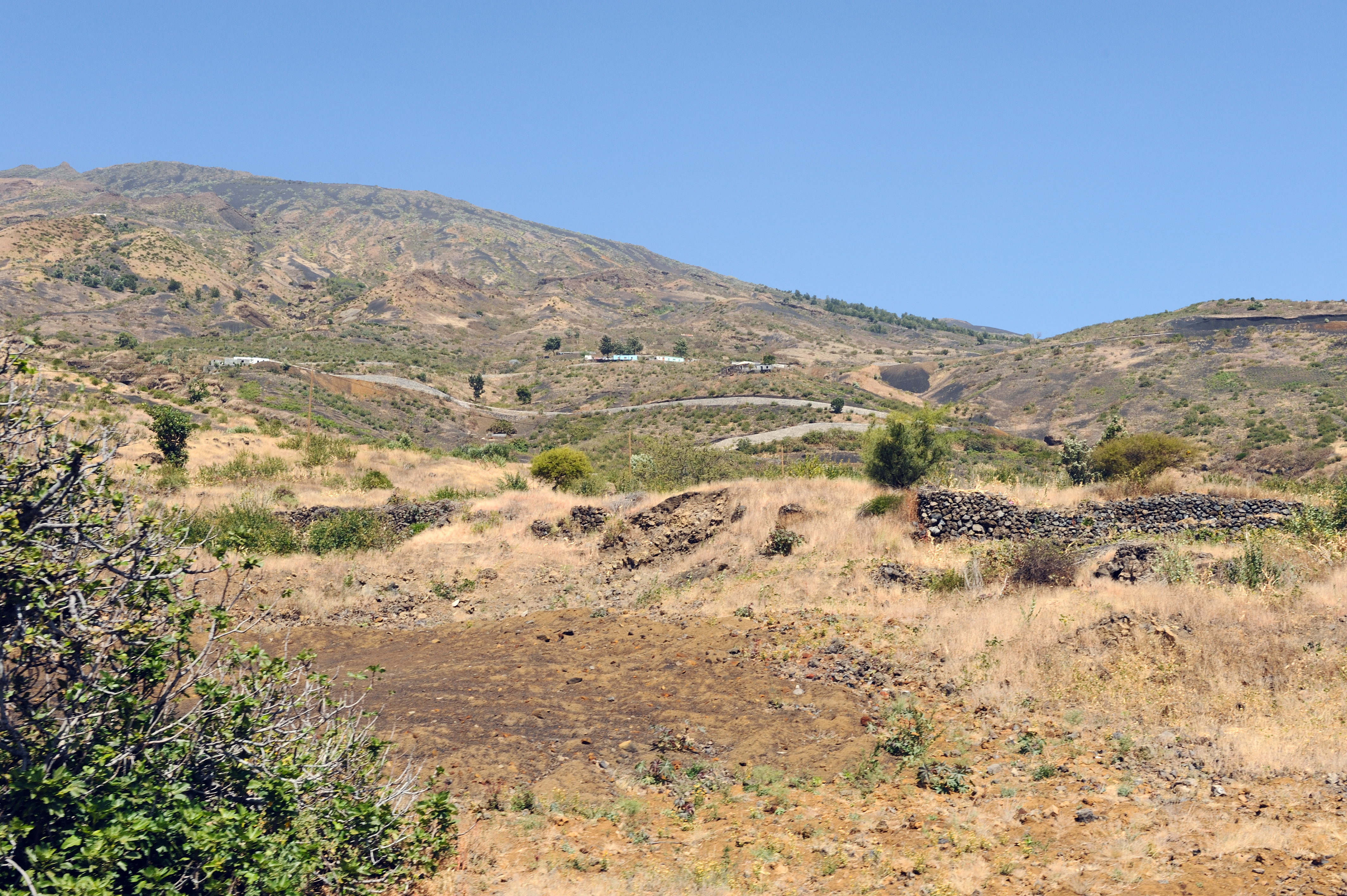 Cape Verde, island of Fogo: landscape with road leading to the caldera of the island's volcano.